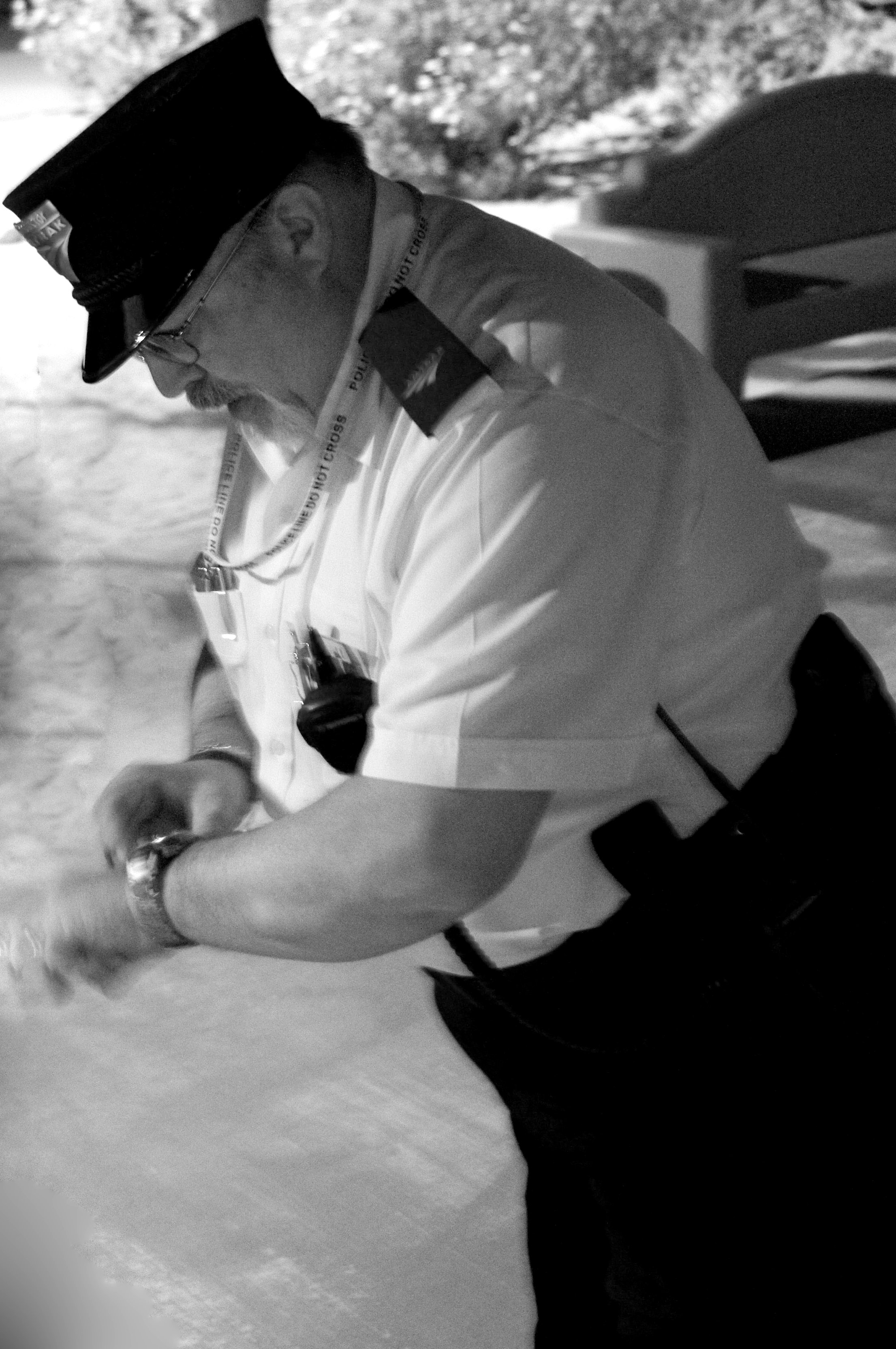 Taken at a train stop, in the middle of the night, somewhere between Tucson and San Francisco on the "Sunset Limited". Yep, a few seconds later it was "all aboard". By the way, the conductor is the railway employee charged with the management of a freight, passenger, or various other types of train, and is also the direct supervisor of the train's "Train Crew" (brakeman, flagman, ticket collector, assistant conductor, on board service personnel). All train crew members on board the train work under his or her direction. The Conductor and Engineer, who is in charge of the locomotive(s) and any additional members of the "Engine Crew" (fireman, pilot engineer) share responsibility for the safe and efficient operation of the train and for the proper application of the railways' rules and procedures. On some railroads, Conductors are required to progress to the position of Engineer as part of union contractual agreements.